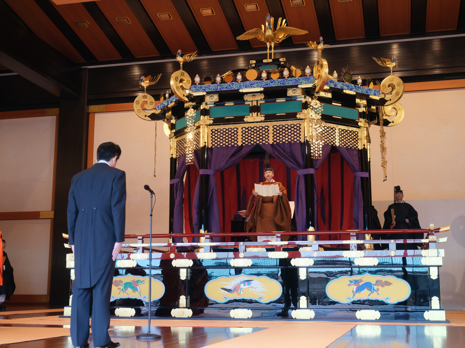 Statement by the Emperor at Ceremony of the Enthronement